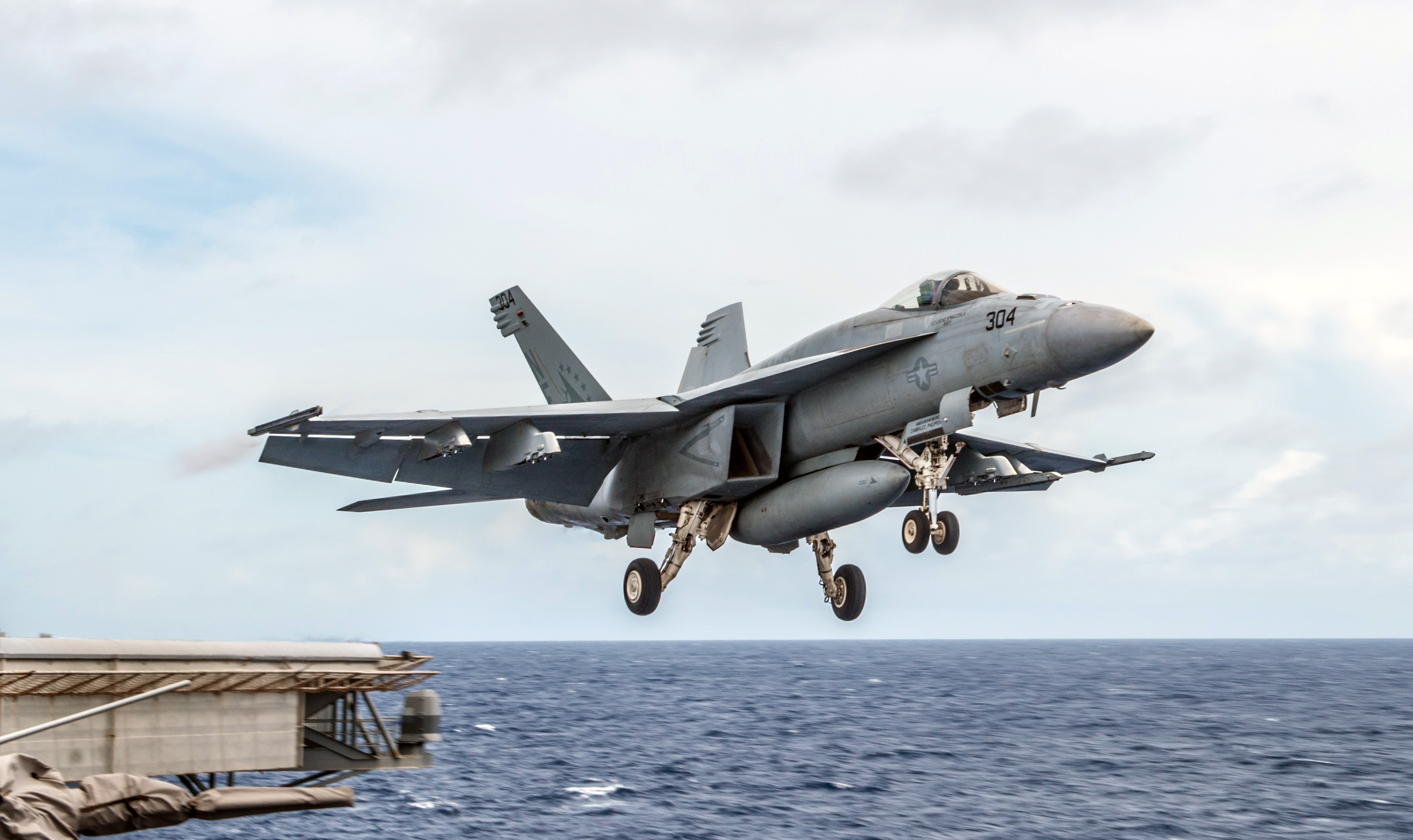 PHILIPPINE SEA (Oct. 1, 2016) An F/A-18E Super Hornet assigned to the "Eagles" of Strike Fighter Squadron (VFA) 115 launches from the flight deck of the Navy's only forward-deployed aircraft carrier, USS Ronald Reagan (CVN 76). The F/A-18 Super Hornet is an all-weather fighter/attack aircraft that provides a carrier-strike group with multiple uses, including fighter escort, fleet air defense, close and deep-air support, electronic attack and precision-guided weapons strike capabilities. Ronald Reagan, the Carrier Strike Group Five (CSG 5) flagship, is on patrol supporting security and stability in the Indo-Asia-Pacific region. (U.S. Navy photo by Petty Officer 3rd Class Nathan Burke/Released)161001-N-OI810-079 Join the conversation: navylive.dodlive.mil